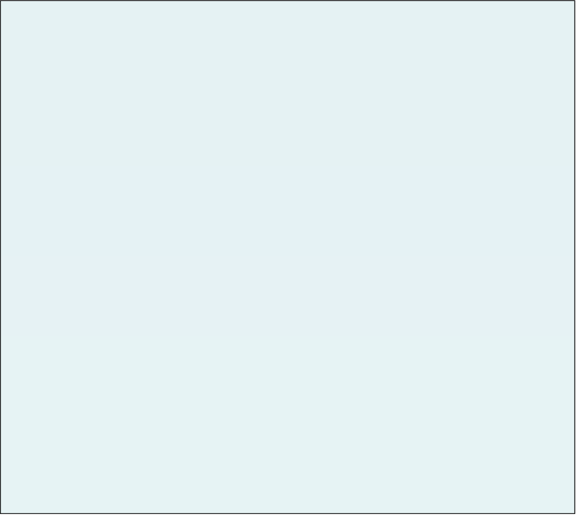 skali intensywności - prezentacja 5